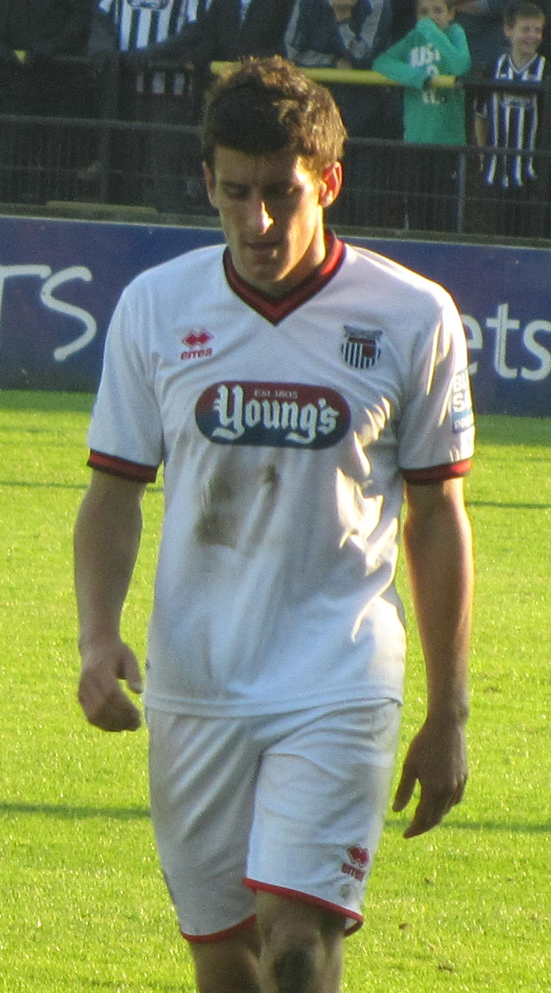 Michael Coulson playing for Grimsby Town against York City at Bootham Crescent, York on 15 October 2011